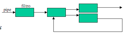 Pipes and Filters